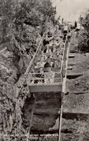 This postcard by W. H. Green (Wally) was probably taken in the mid 1940s. The gentleman on the back right hand side is Gus Benham who was a tour bus driver who became a conductor.